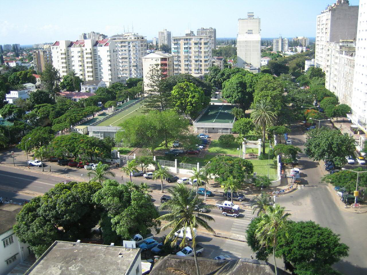 High Commission of South Africa in Maputo, Mozambique, corner Av. Eduardo Mondlane / Av. Julius Nyerere, view from the roof at Hotel Avenida